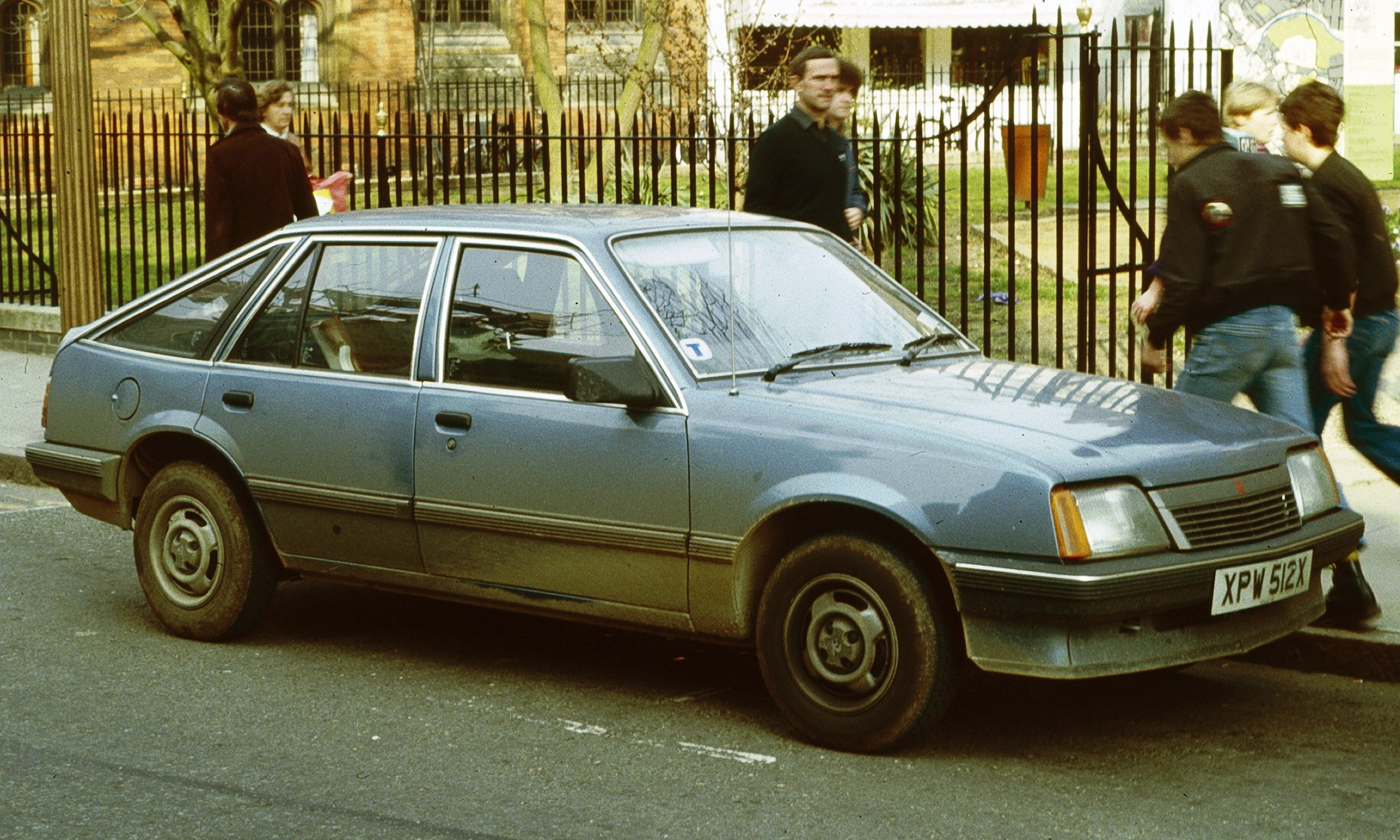 Vauxhall Cavalier II Hatchback Tax office data Date of first registration February 1982 Year of manufacture 1982 Cylinder capacity 1598 cc Date of last *logbook* issuance 9 July 1992 Untaxed for UK road use since 1 January 1993